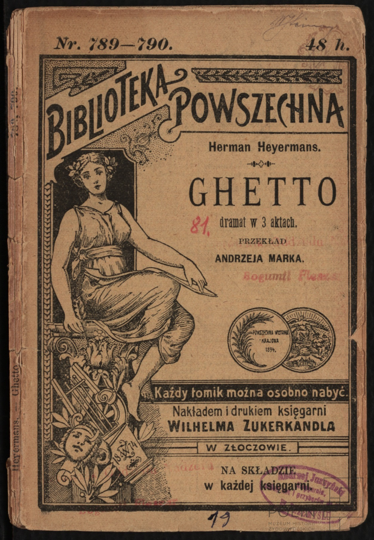 libretto of the play Ghetto of Herman Heyermans translated in polish by Mark Arnstein